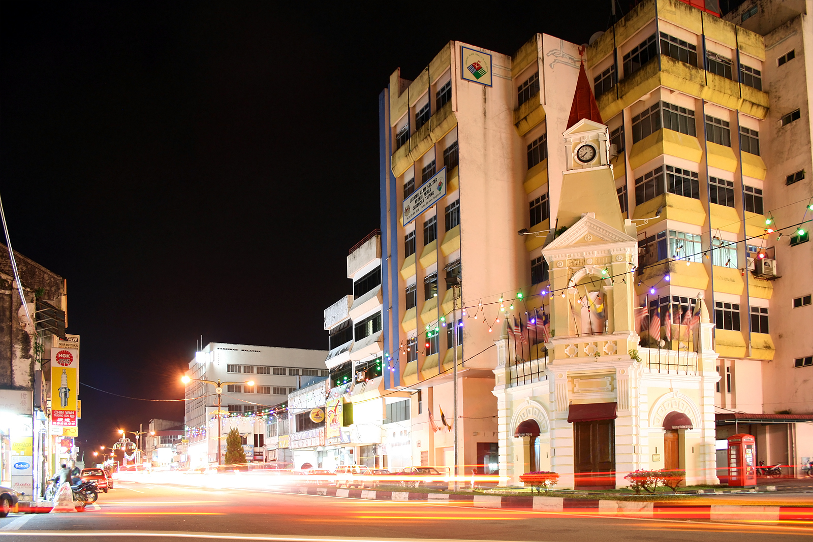 A view of Kota Road in the town of Taiping at night. To the right is the iconic clock tower built by the British that has been standing for generations.